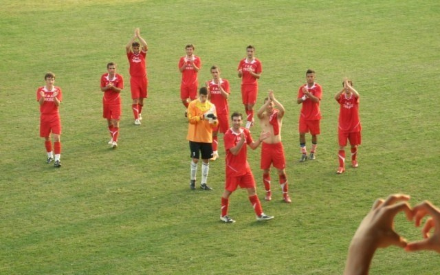 Tikveš players salute their fans.